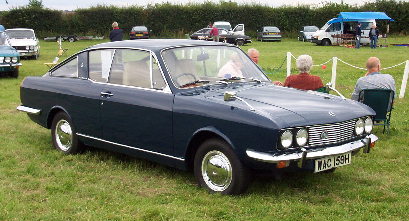 Summary Sunbeam Alpine 'Fastback' Coupe. Picture by David Parrott. DVLA information First registered 12 Nov 1969 Engine displacement 1725cc The "Sunbeam Alpine" name was applied, in this instance, to a reduced specification version of the "Sunbeam Rapier".